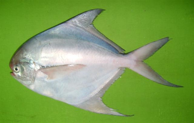 Pampus argenteus collected in Pakistani Indian Ocean.